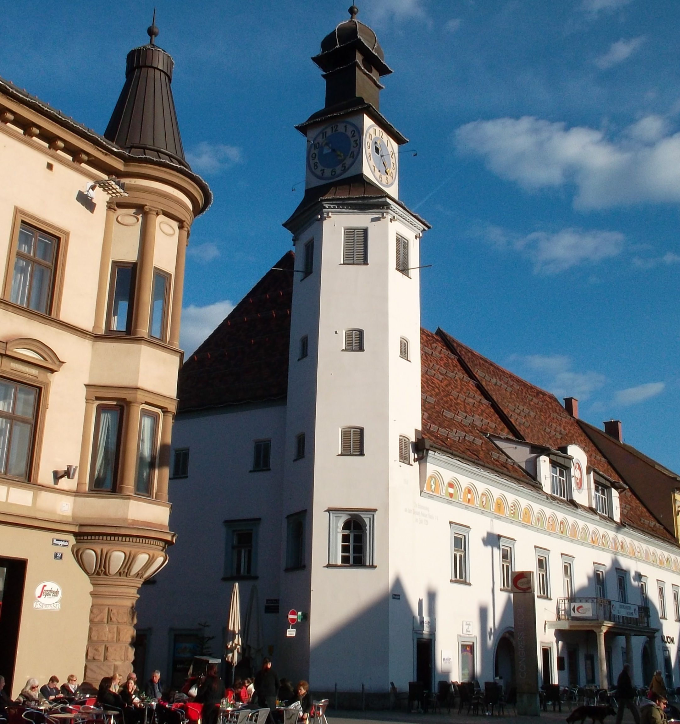 The old town hall of Leoben.